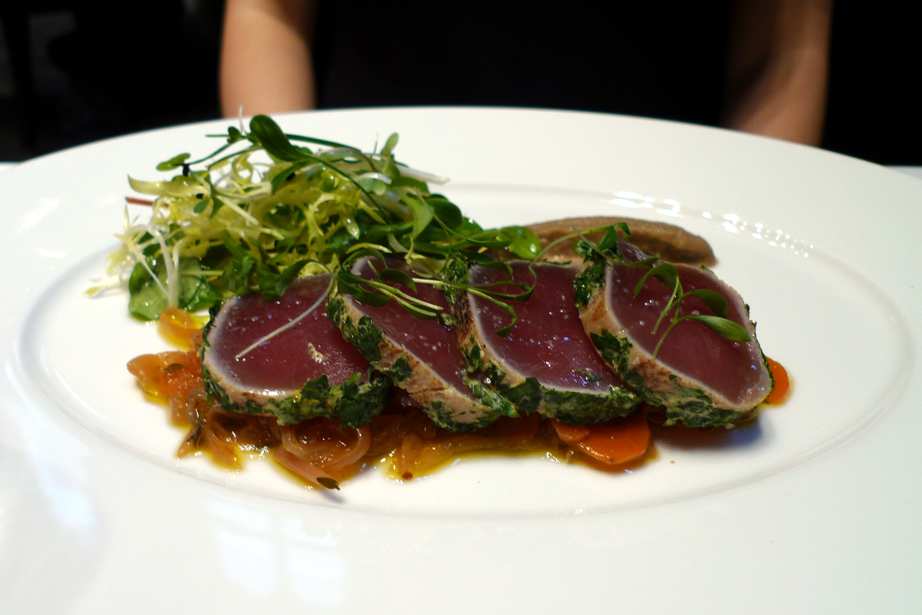 My friend's escabèche of yellow fin tuna, aubergine caviar and coriander. At Galvin La Chapelle, Spital Square.